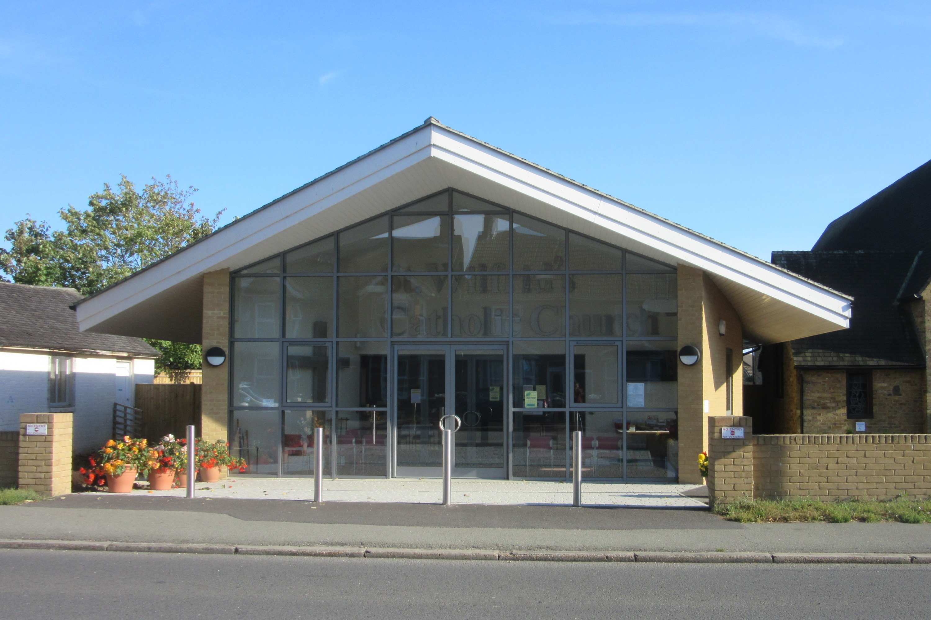 The current St Wilfrid's Roman Catholic church, South Road, Hailsham, East Sussex, England. The new church opened in October 2015 and was built on spare land between its 1955 predecessor to the south (right) and the original church of 1922 to the north (left), both of which are partly visible in this picture.